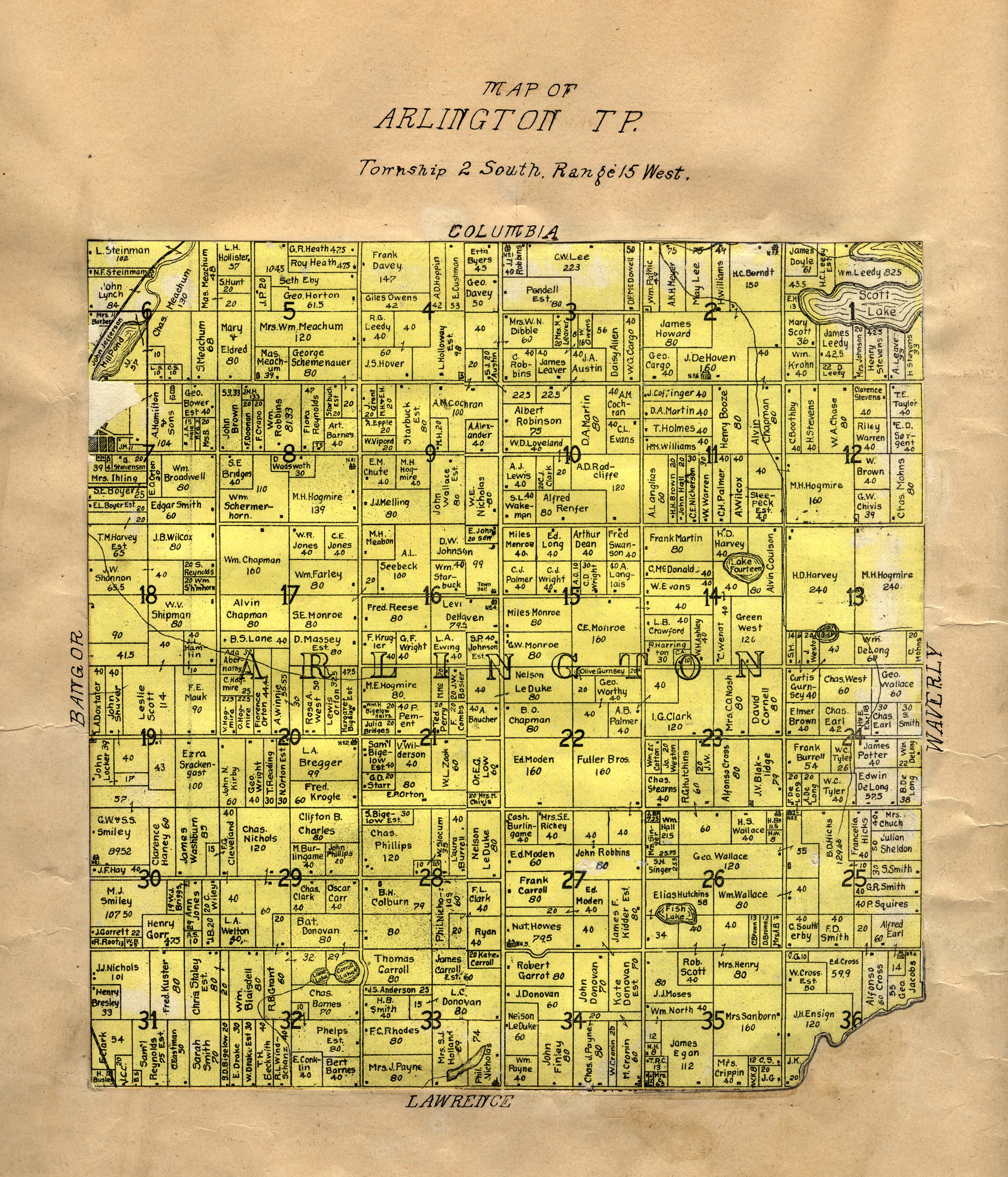 Digital scan of the Arlington Township portion of a larger 1906 map of Van Buren County, Michigan. The county map was cut into township-sized pieces, and the pieces were later found pasted into an 1895 atlas of Van Buren County, now in the collection of the Michigan State University Map Library. Each township map cut from the 1906 county map was pasted onto a blank page opposite the map of the corresponding township in the 1895 county atlas. Shows parcel boundaries and names of property owners, Public Land Survey System township and section numbering, roads, railroads, residences, schools, churches, municipalities, and water features. Print version was cut from map: Orton, M. K. A farm map of Vanburen County, Michigan / compiled from official records and local inspection by W.H. Goss, County Surveyor ; drawn by M.K. Orton. Rockford, Ill. : W.W. Hixson, [1906]. MSU Libraries catalog record